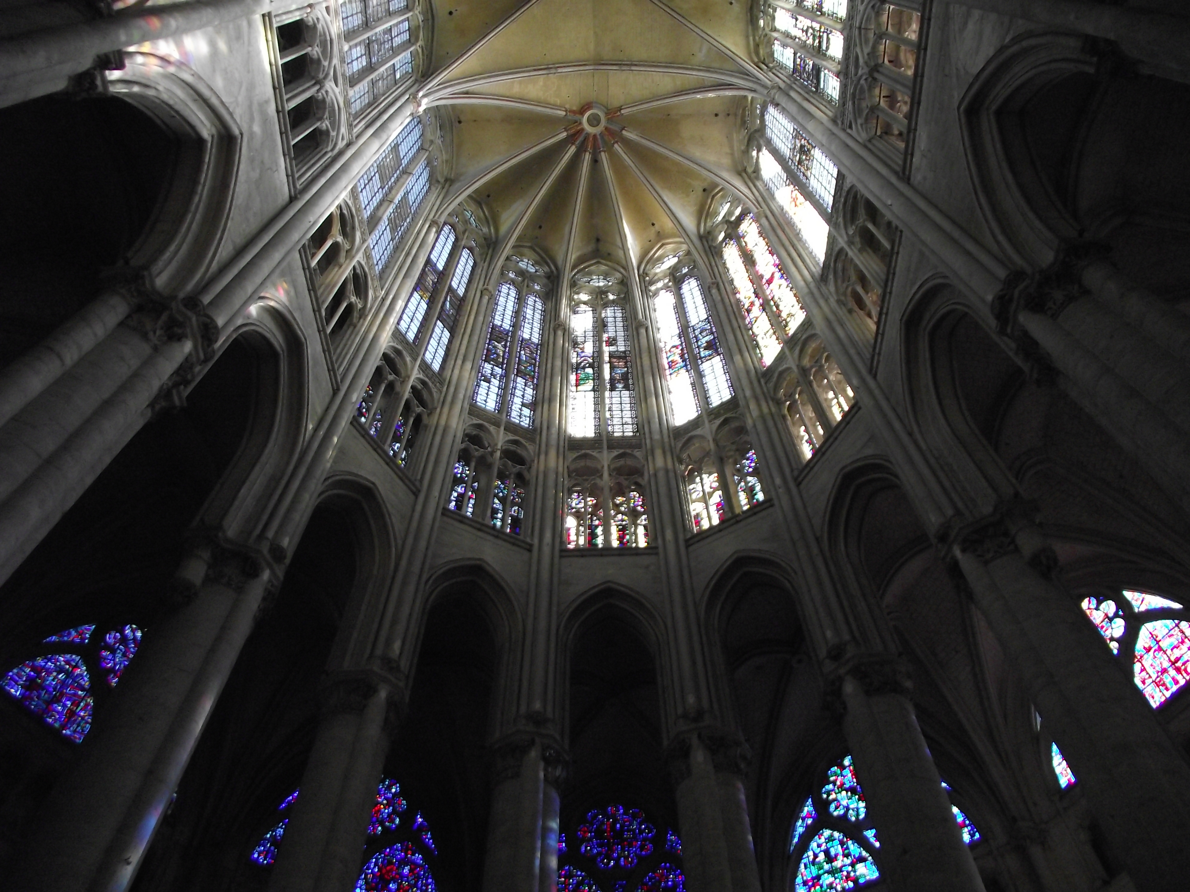 Beauvais, Saint Peter's Cathedral, Choir, XIII Century